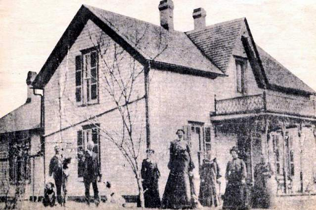 Photo of Ella Ewing and her family outside her special-built home near Gorin, Missouri. Miss Ewing was considered the worlds tallest woman of her era. She died in 1913. This image was taken and published before then, and certainly well before 1923, thus is considered in the public domain under U.S. laws. The purpose of its use on Wikipedia is to illustrate the subject of her article, display her extreme height, and the special accommodations it required, in a manner the average reader can comprehend.